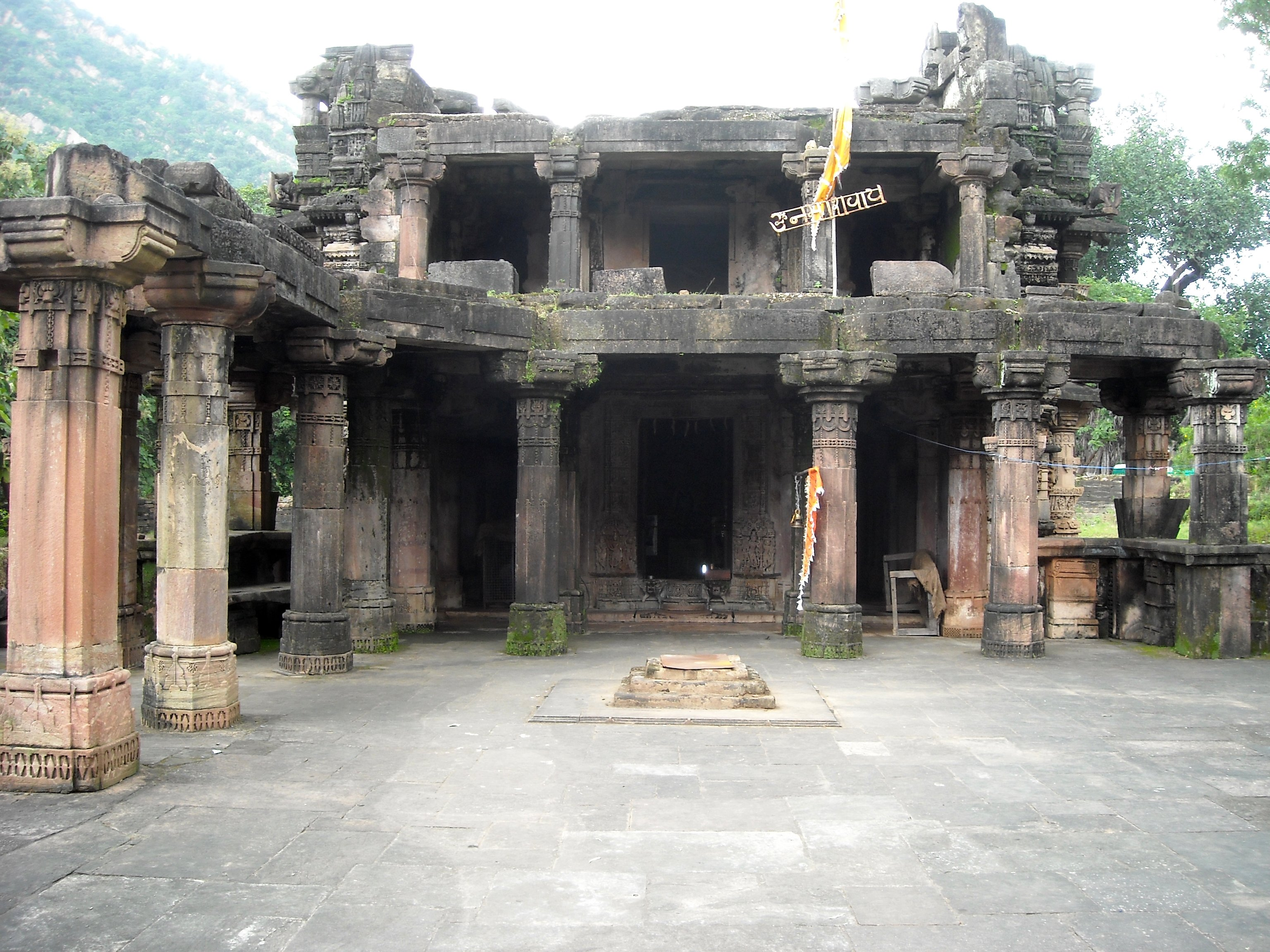 Sarneshwar Mahadev is nice temple in Polo forest where you can feel peace from stressful life.